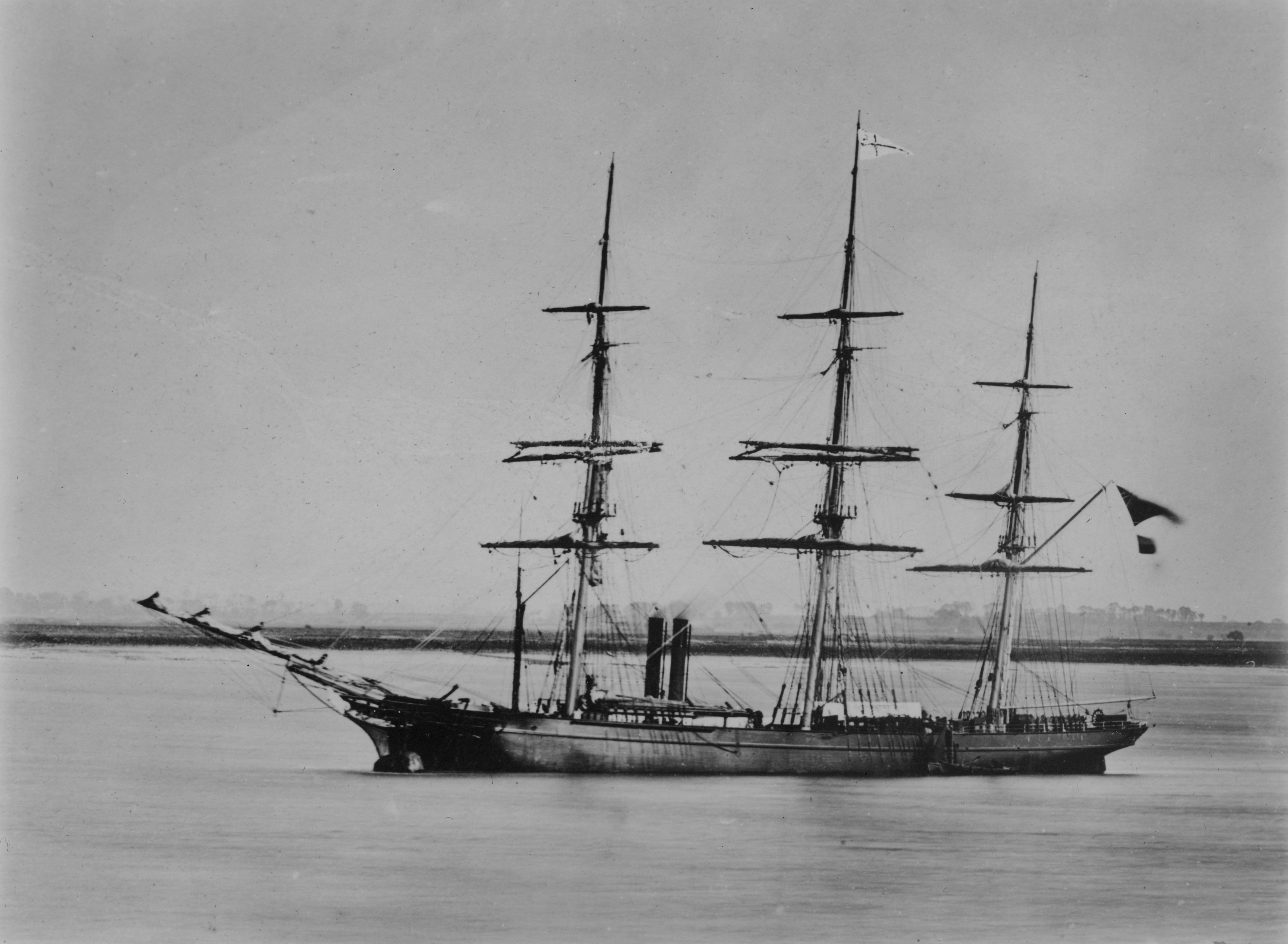 The China clipper „Lahloo“; built 1867. Lost Sandalwood Island, Sunda Islands, on voyage from Shanghai to London with tea 31 July 1872.